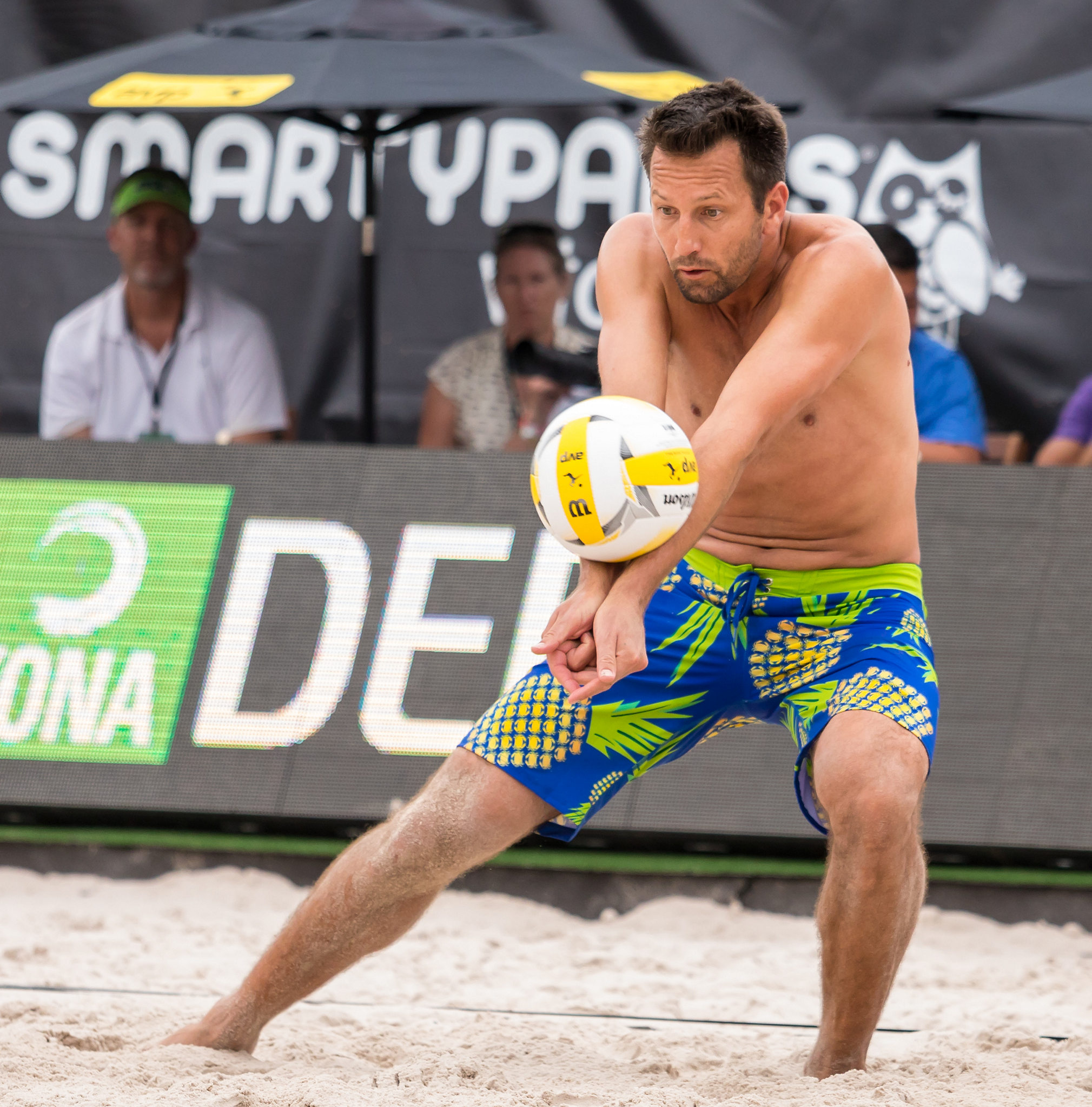 Sean Rosenthal at the AVP Austin Open professional beach volleyball tournament in Austin, Texas on May 21, 2017.